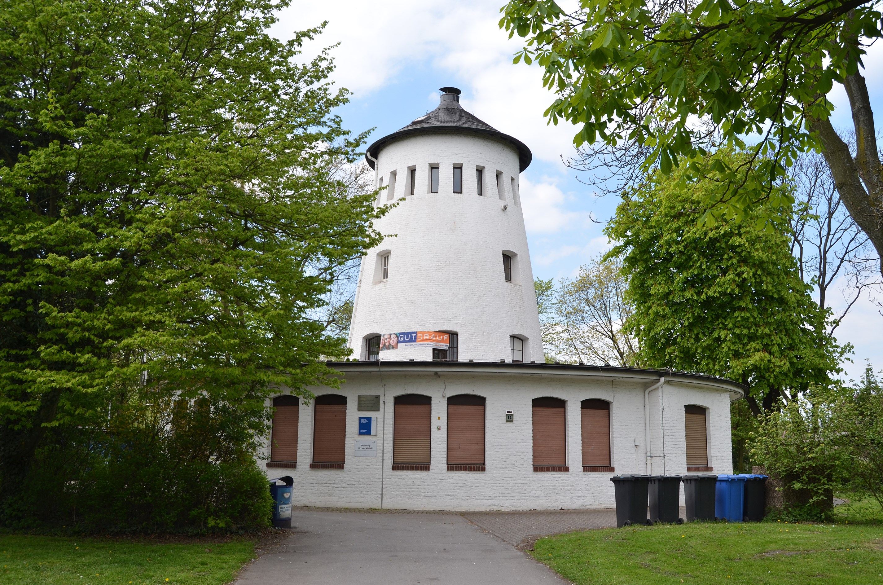 Duisburg (North Rhine-Westphalia, Germany) – borough Rheinhausen, district Friemersheim – windmill This image shows a heritage building in Germany, located in the North Rhine-Westphalian city Duisburg (no. 96). This photograph was taken with a Nikon D7000.